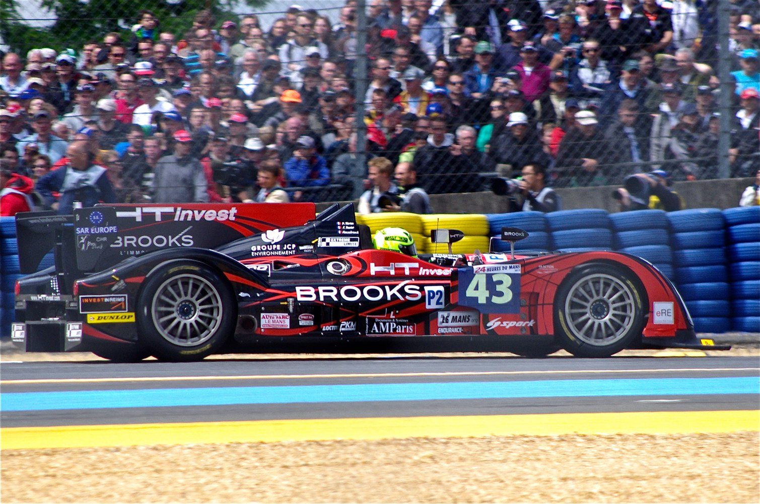 Extreme Limite ARIC's Norma M200P Judd Driven by Philippe Haezebrouck, Fabien Rosier and Philippe Thirion at Le Mans 2012.